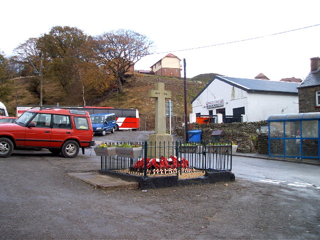 Bedlinog War Memorial and rugby club. Picture taken on the square in my home village of Bedlinog